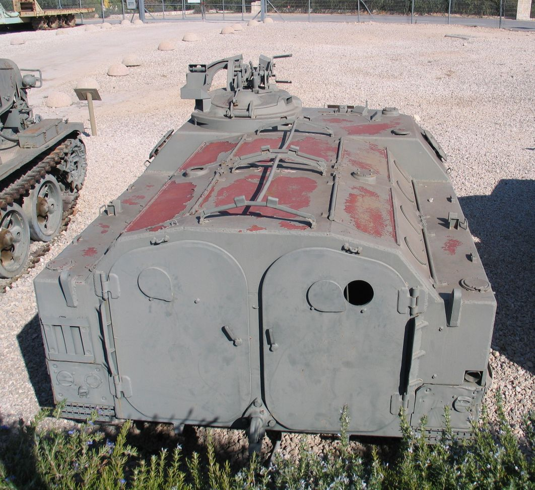 Description: AMX VCI APC in Yad la-Shiryon Museum, Israel. 2005. Source: Photo by me, User:Bukvoed